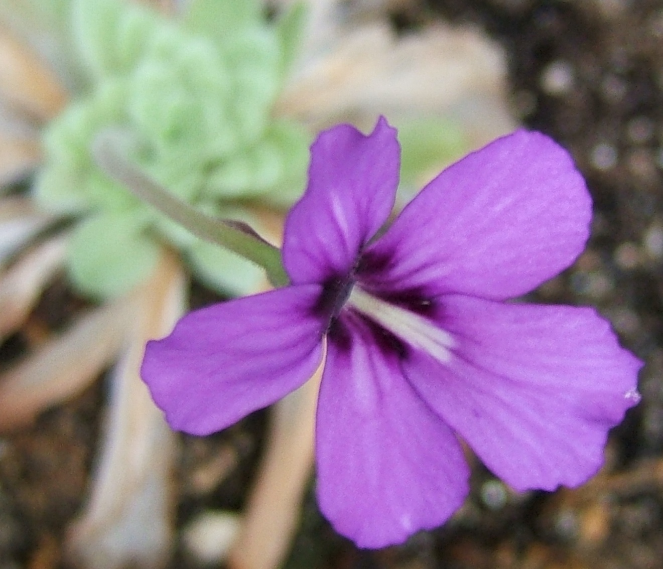 Pinguicula potosiensis flower